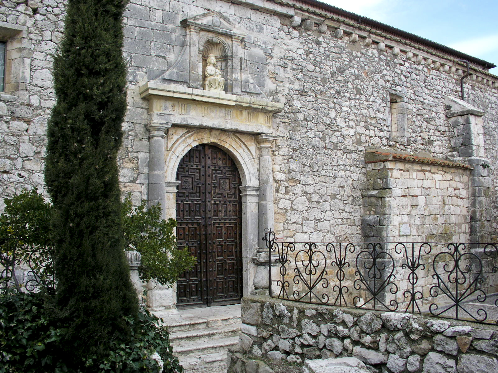 Torija church, Province of Guadalajara, Spain.